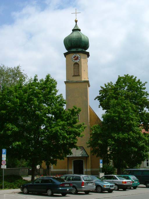 Pilgrimage chapel Maria Egg in Peiting